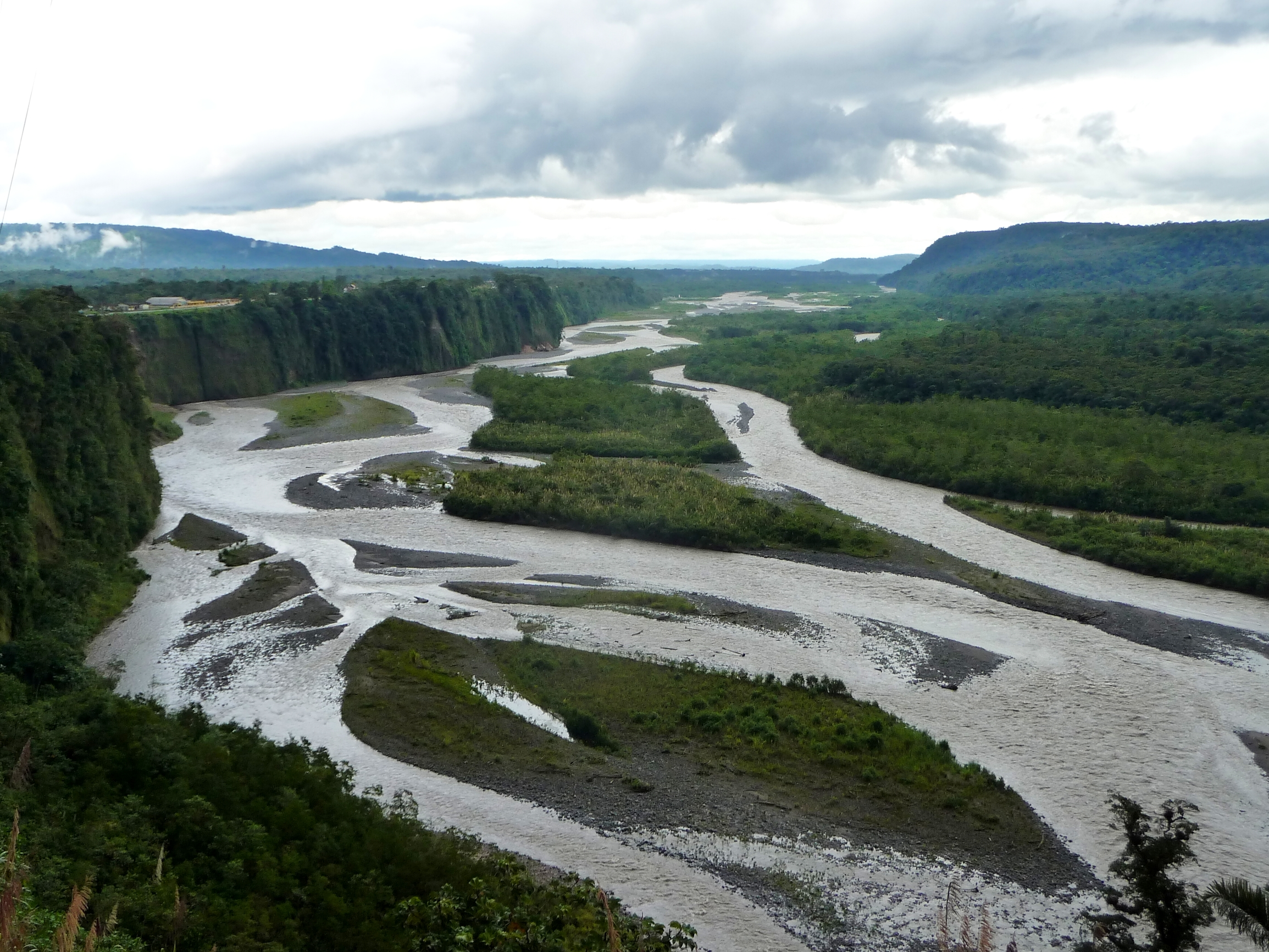 The Pastaza River (Pastaza, Ecuador).